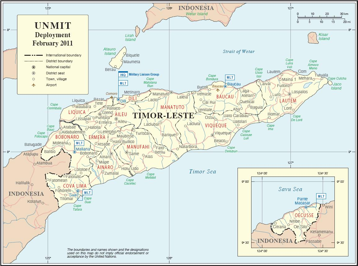 Locations of United Nations Integrated Mission in East Timor (UNMIT) military liaison teams as at February 2011. UN Map No. 4286 Rev. 8.